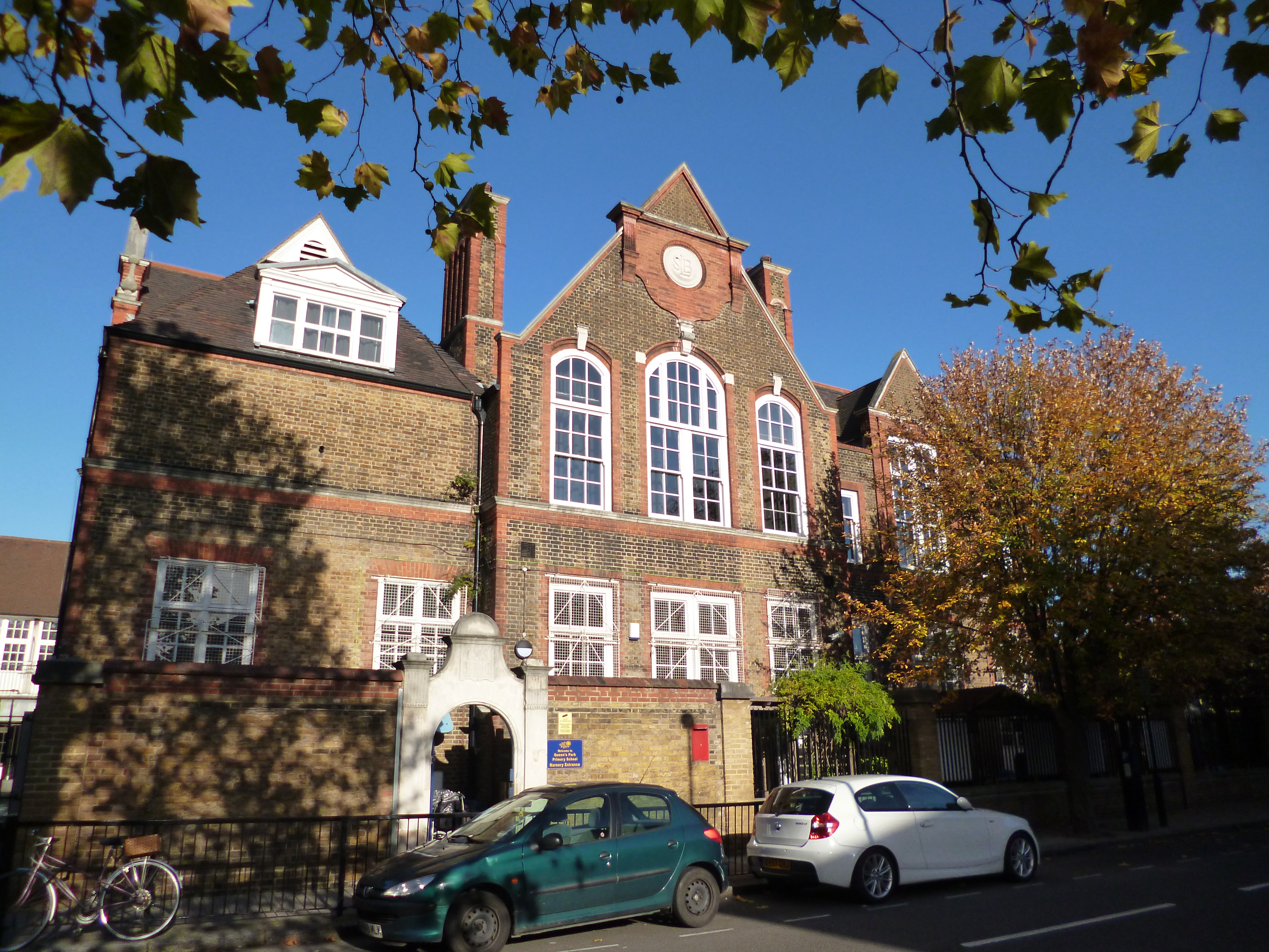 Queen's Park Primary School, Droop St